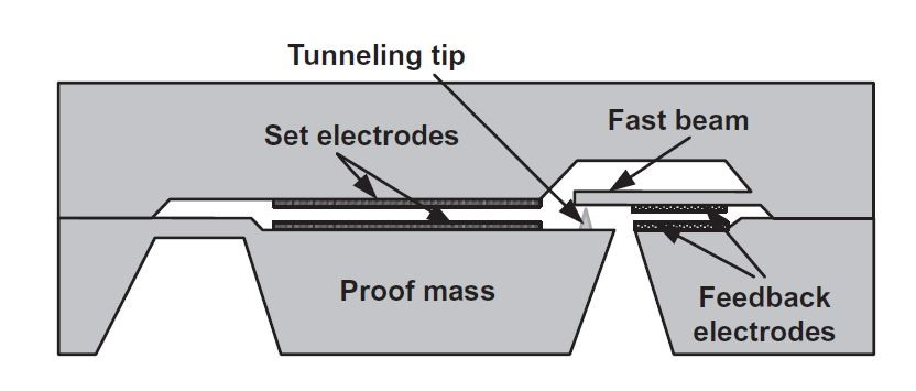 Acccelerometer